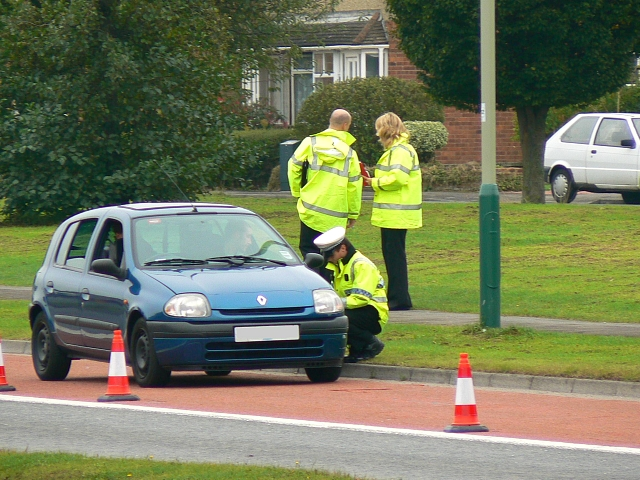 Police checkpoint, Queens Drive, Swindon (2) A closer look at the police checkpoint. A policeman is speaking to the passenger in the Renault while two, probably non-Police, officials stand by. I don't normally block out number plates but I have in this case since I don't want to be accused of interfering with the due process of the law.